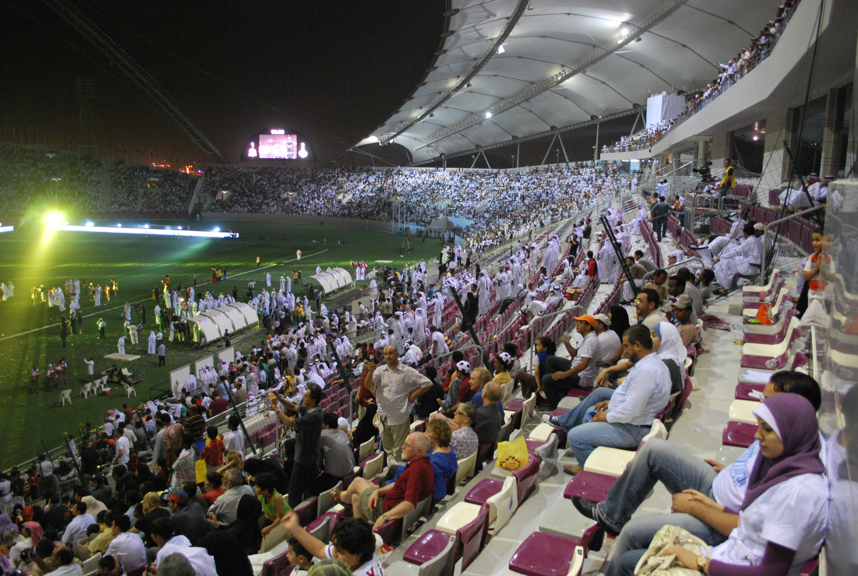 people in Stadium 2009 Emir of Qatar Cup Final.